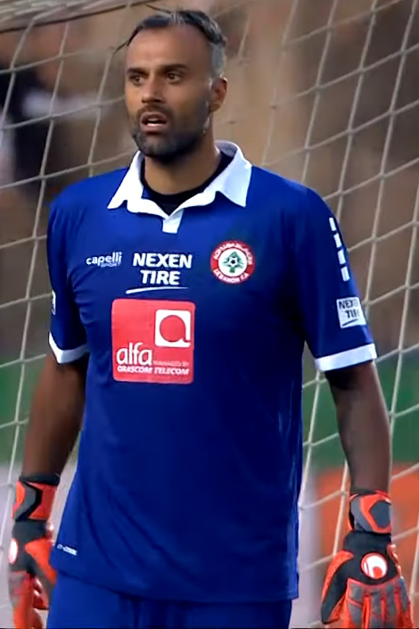 Abbas Hassan with Nejmeh against Ansar during the 2019-20 Lebanese Premier League season